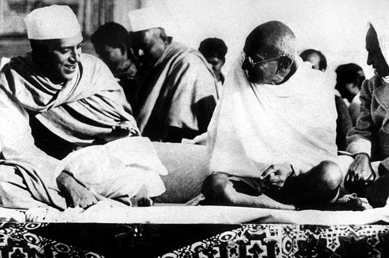 Nehru and Gandhi at the opening of the Indian National Congress, 1937.